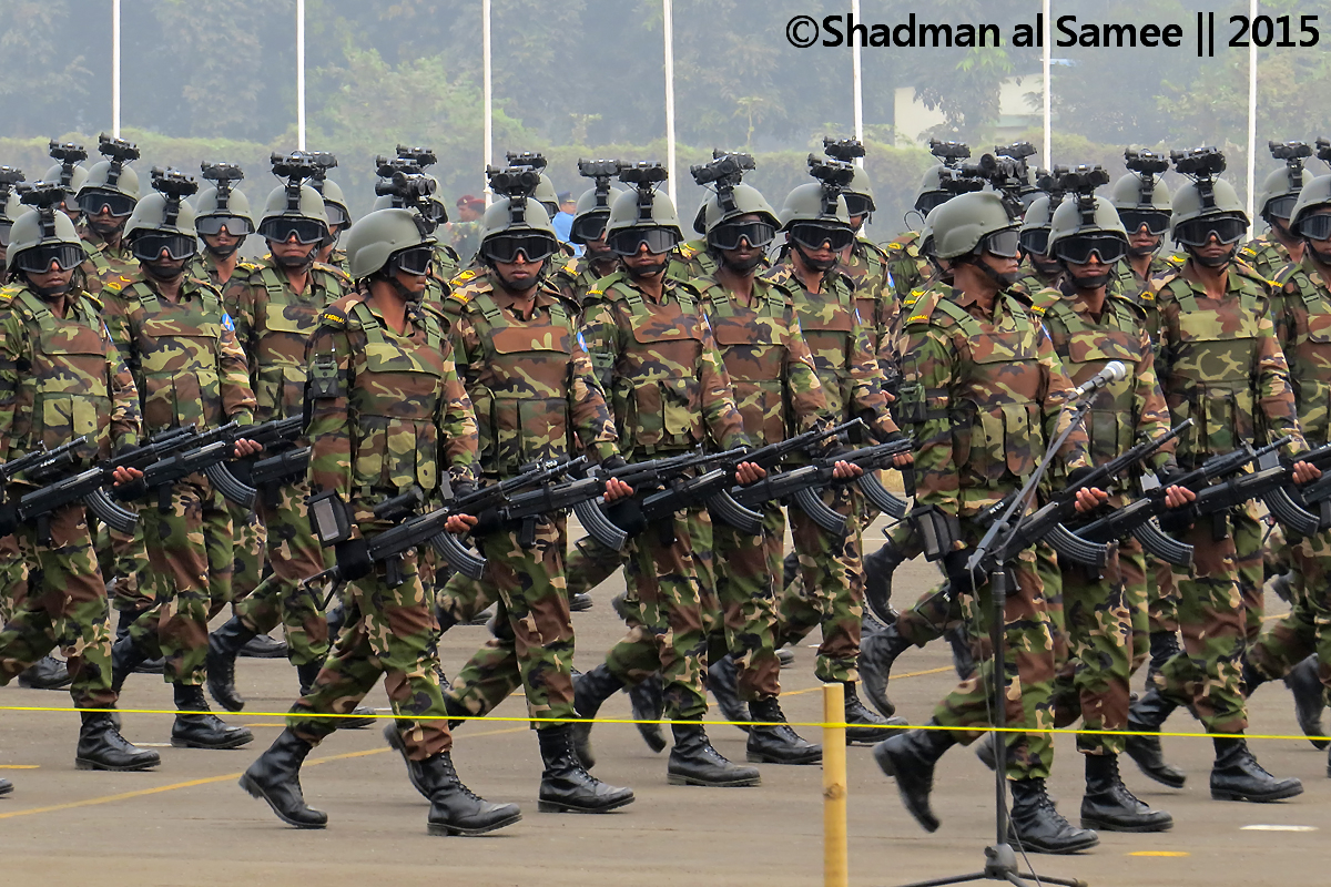 Modular Infantry: Bangladesh Army